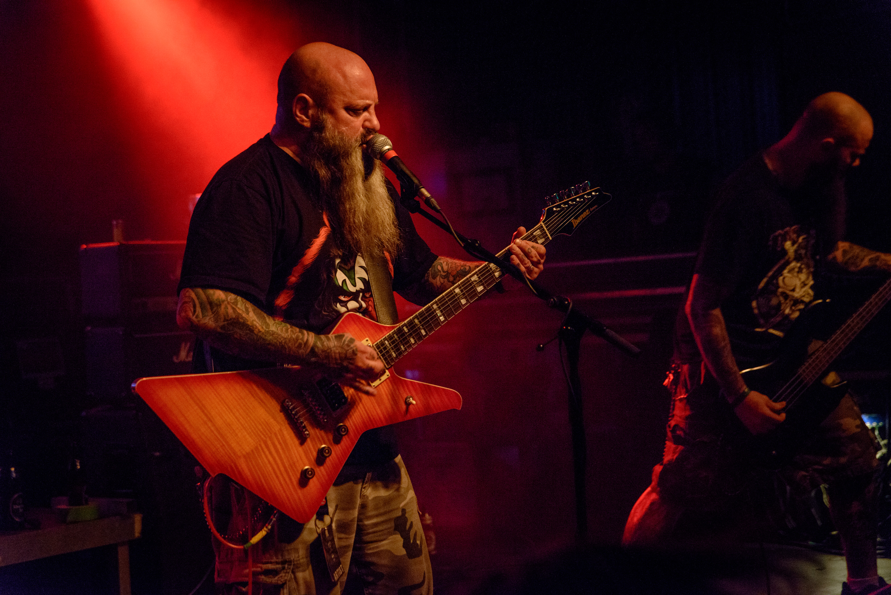 Crowbar Live @ Free & Easy Festival 2015